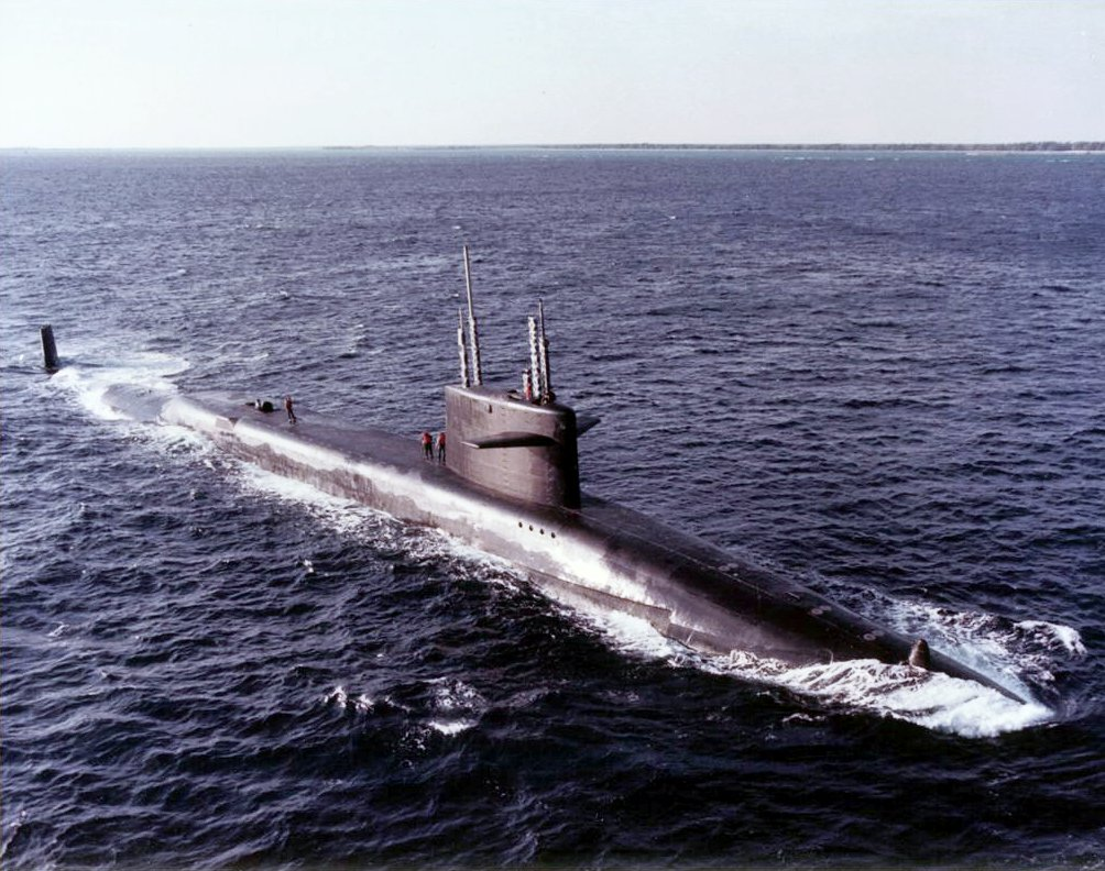 United States Navy fleet ballistic missile submarine The Nathan Hale (SSBN-623), possibly during sea trials off the United States East Coast, 13-14 October 1963.